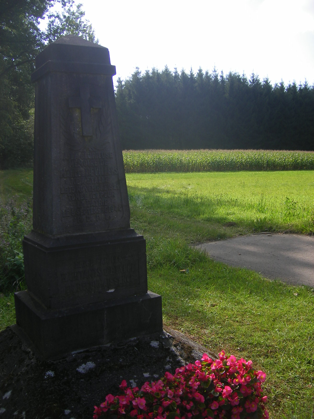 War memorial near Vance (Étalle municipality), Luxembourg Province